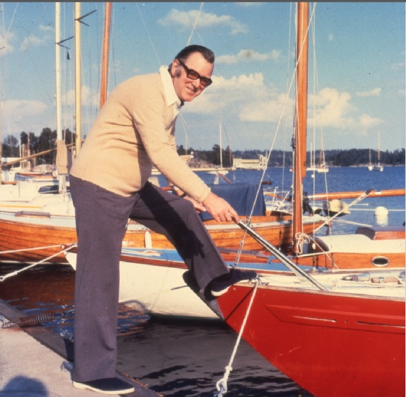 Arne H. W. Larsson (26th May 1915 to 28th December 2001) was the first recipient of an implantable pacemaker. He received the first device in 1958 and had a total of 26 devices during his life. He became an advocate for patients needing pacemakers, campaigning for greater funding and research in this area.